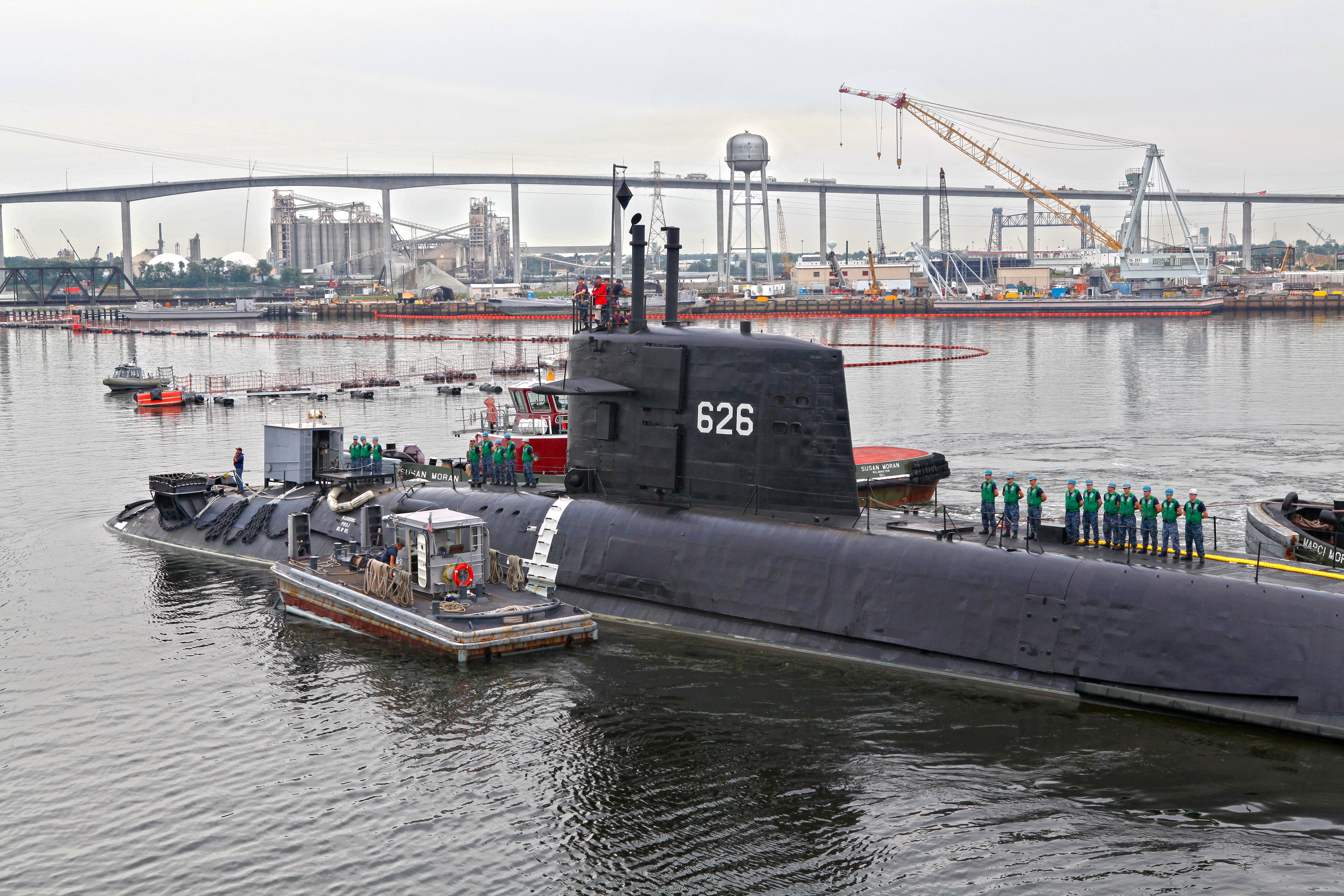 NORFOLK (Aug. 21, 2012) The moored training ship Daniel Webster (MTS 626) begins its tow from Norfolk Naval Shipyard to Charleston, S.C., for the final quarter of its 16-month dry docking engineered maintenance availability more than three weeks ahead of schedule. (U.S. Navy photo/Released) 120821-N-SY521-001 Join the conversation navylive.dodlive.mil